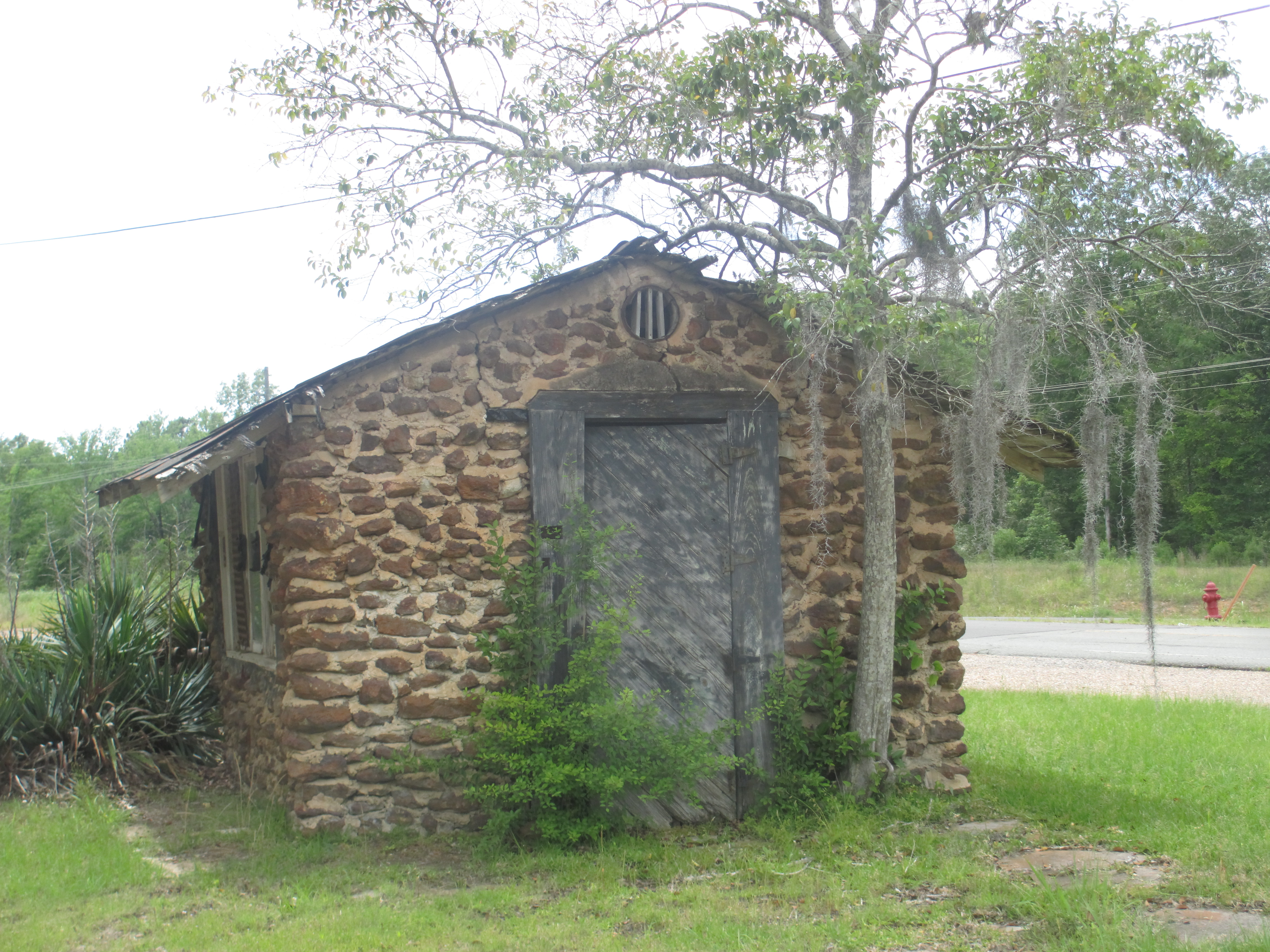 Abandoned stone structure at Black Lake, Natchitoches Parish, Louisiana. I took photo of stone structure at Black Lake (LA), with Canon camera.